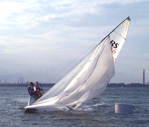 RS K6 Keelboat broaching in a gust whilst attempting to round a mark.